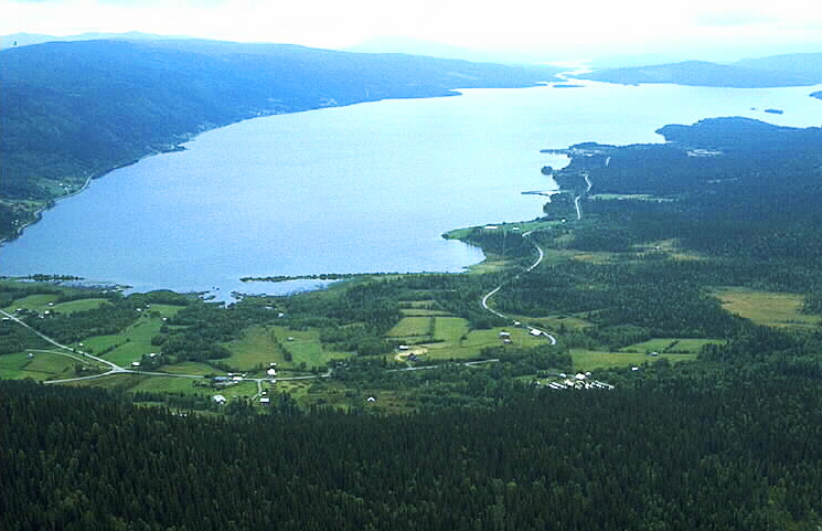 The lake Stor-Björkvattnet in Storuman municipality, Västerbotten county, Sweden